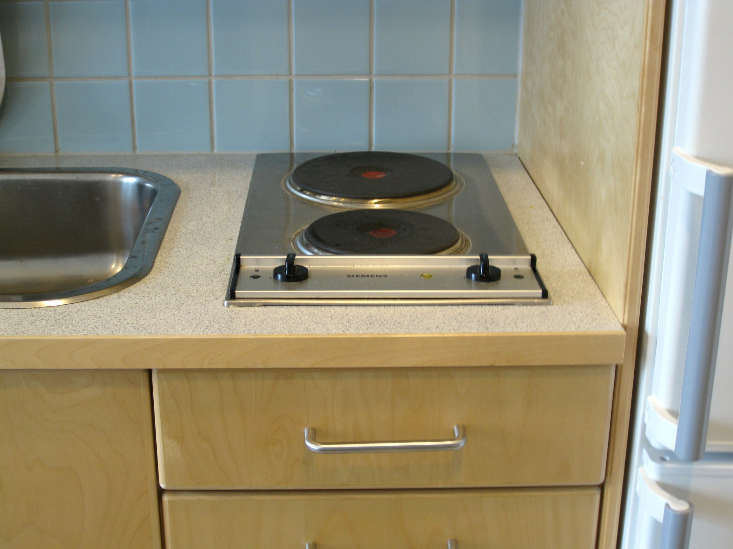 A cooking-top